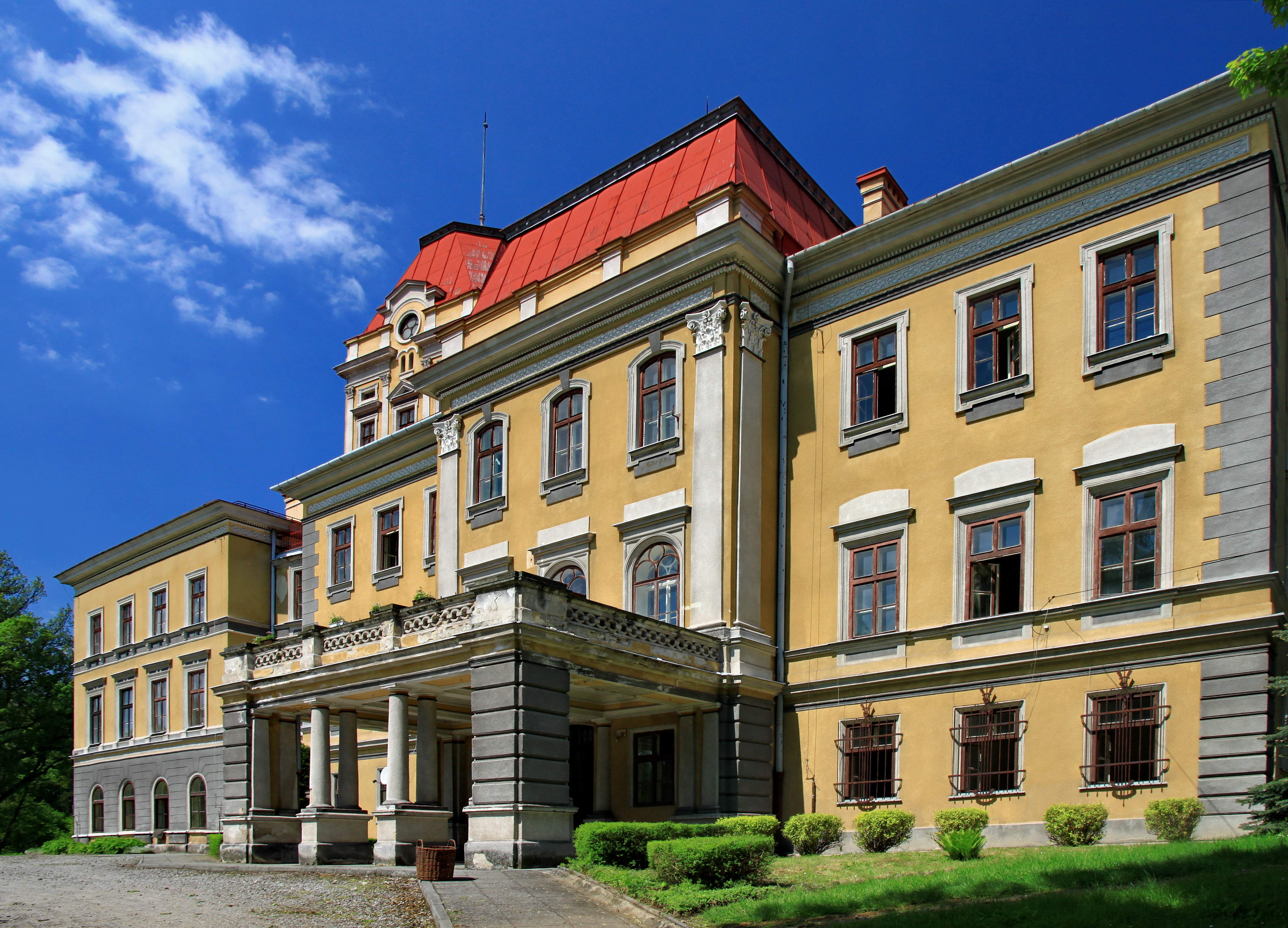 Kończyce Wielkie, palace, 2nd half of 18th century